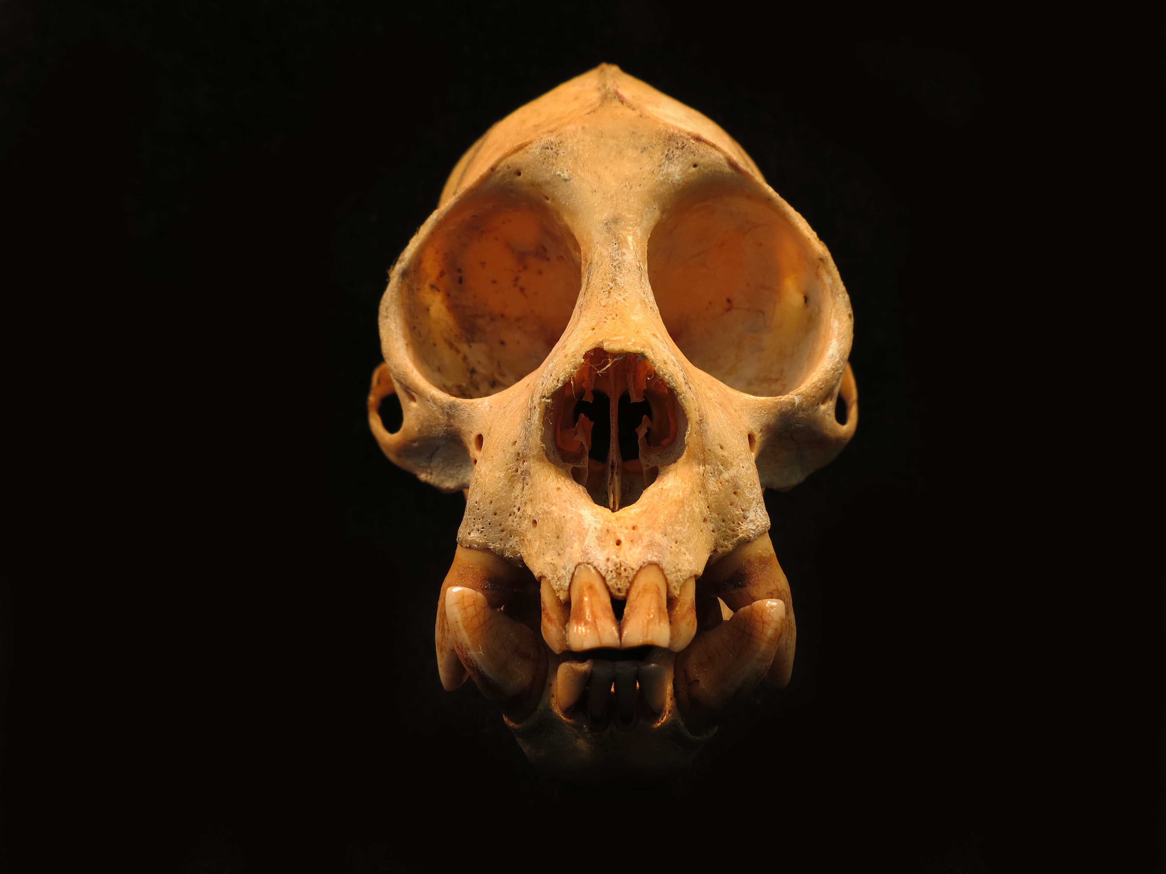 Skull of Cacajao calvus rubincudus male from Santa Cruz, Eiru river, Amazonas, Brazil. Zoology Museum of University of São Paulo (Museu de Zoologia da USP).